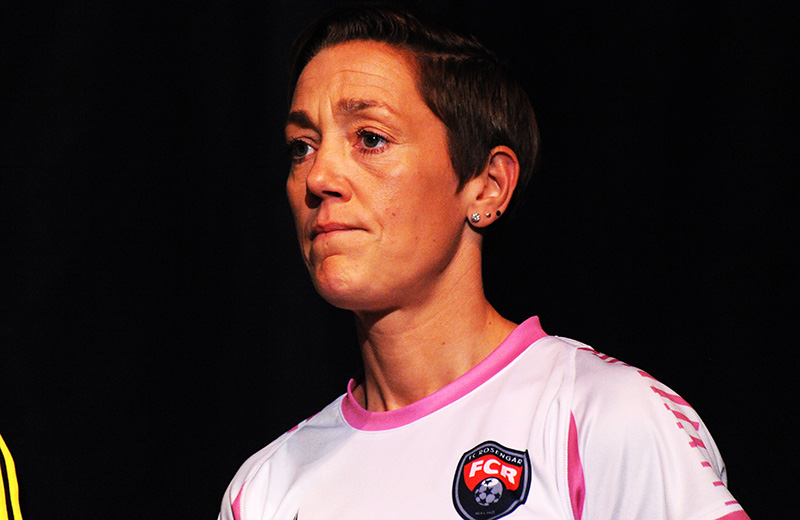 FC Rosengård player Therese Sjögran during the 2014 Damallsvenskan kickoff meeting